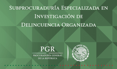 Logo of the Subprocuraduría Especializada en Investigación de Delincuencia Organizada, Mexico's organized crime investigatory agency.